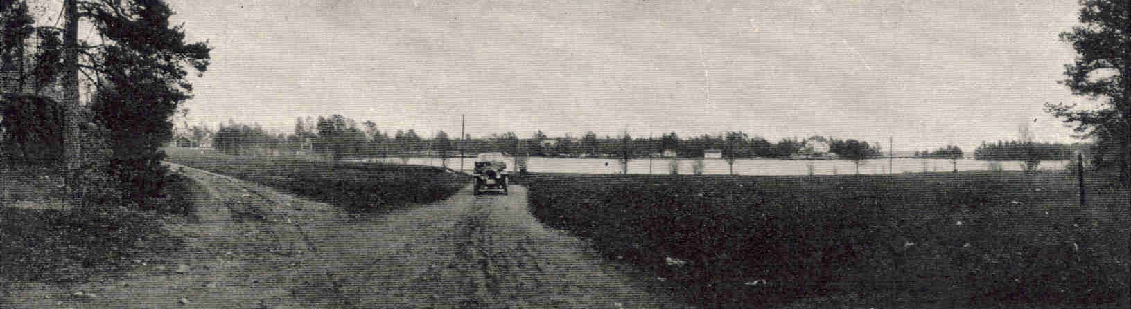 View from Munkkiniemi district, Helsinki, Finland in 1915. Meilahti seen in the background.